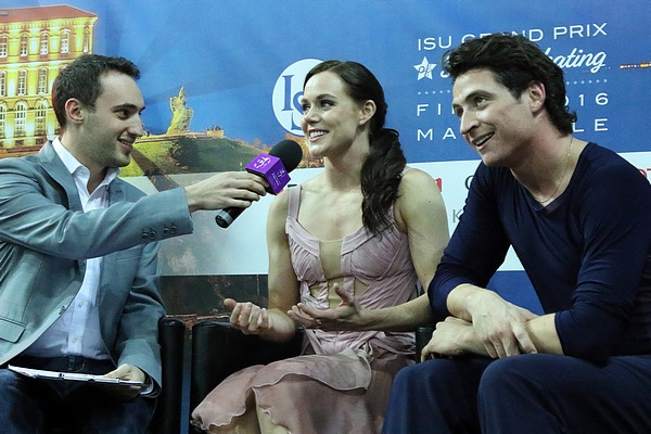 Tessa Virtue and Scott Moir at the 2016 Grand Prix Final